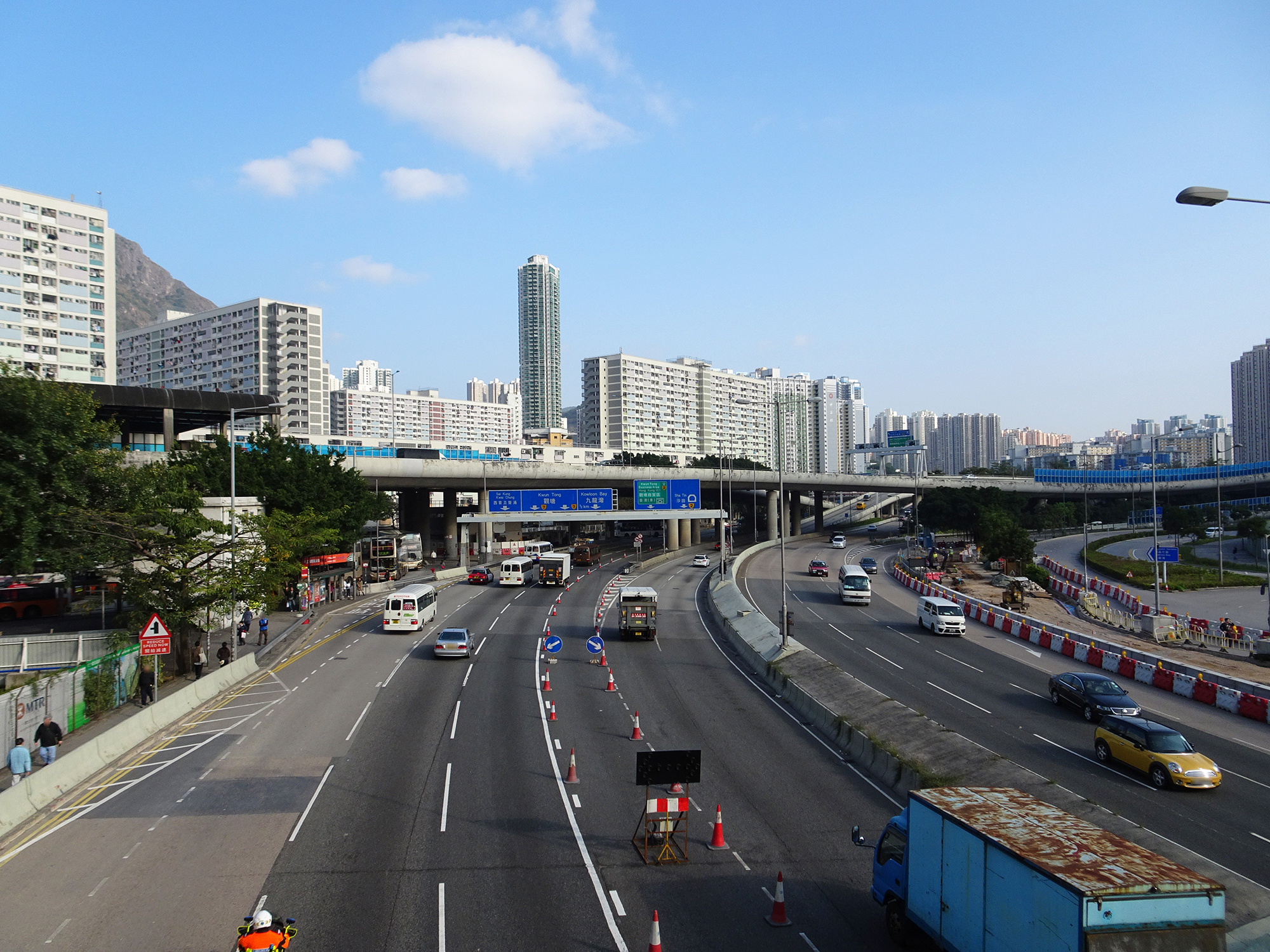 Prince Edward Road East in San Po Kong, Hong Kong.